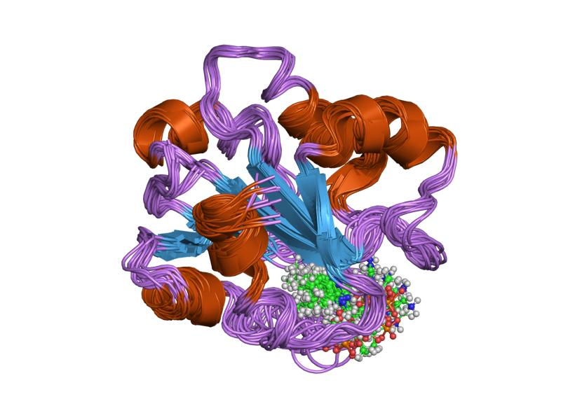 Cartoon representation of the molecular structure of protein registered with 1id8 code.